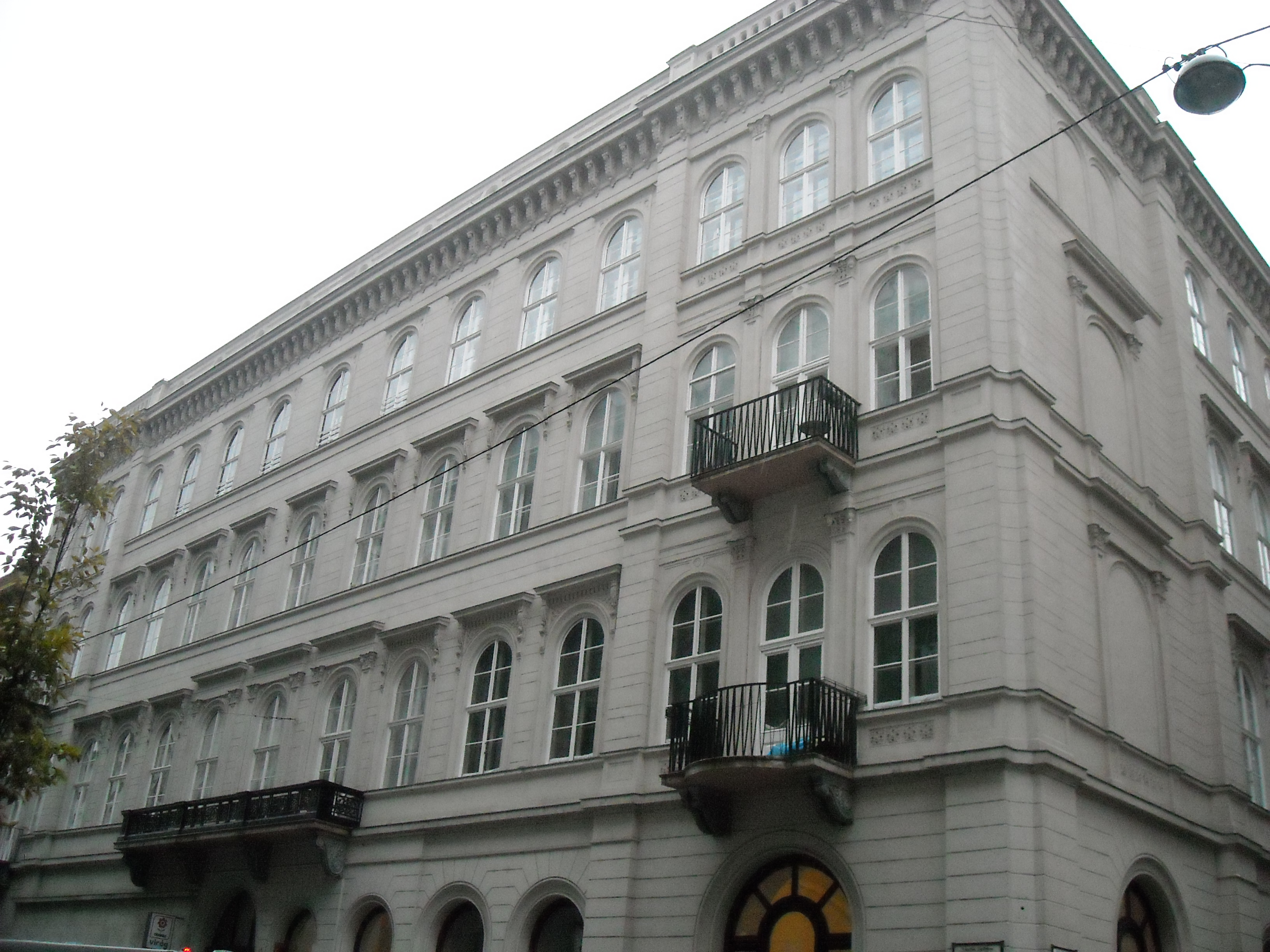 Nádor utca 14, Budapest